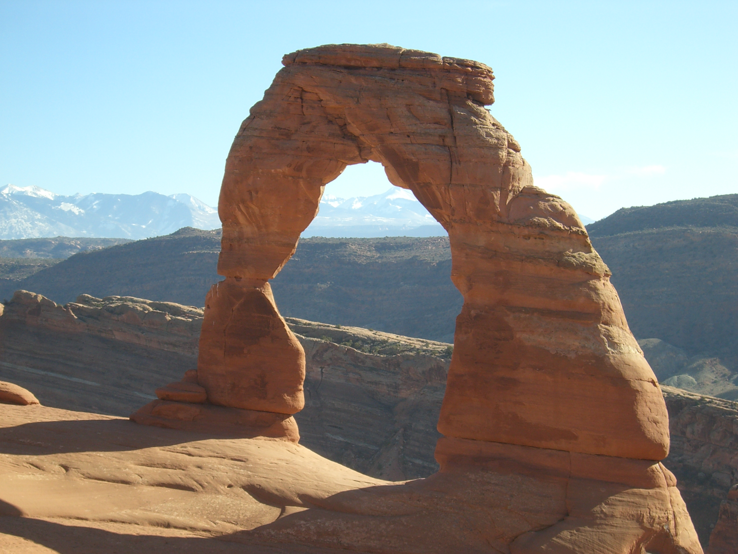 Delicate Arch, Arches National Park, Utah, USA